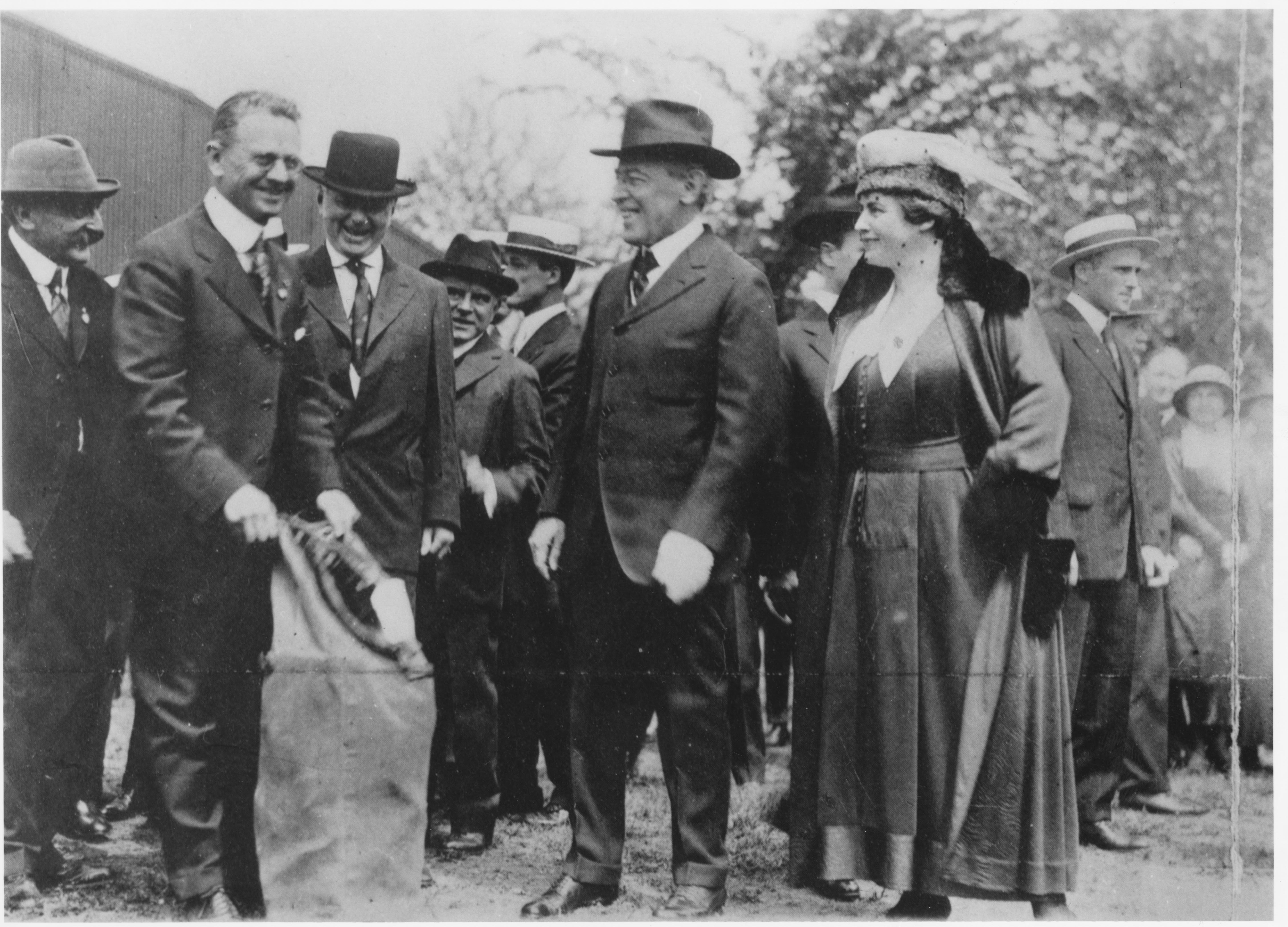 Description: Several Washington political officials were present at the Washington, D.C., polo grounds on May 15, 1918 to watch the takeoff of the first regularly scheduled airmail service. Washington, D.C. postmaster Merritt O. Chance is shown holding the mailbag. To his right is postmaster General Albert Burleson. Facing them are President and Mrs. Woodrow Wilson. Creator/Photographer: Unidentified photographer Medium: Black and white photographic print Culture: American Geography: USA Date: 1918 Collection: Benjamin Lipsner Collection Repository: National Postal Museum Accession number: A.2008-18 Persistent URL: View more collections from the Smithsonian Institution.